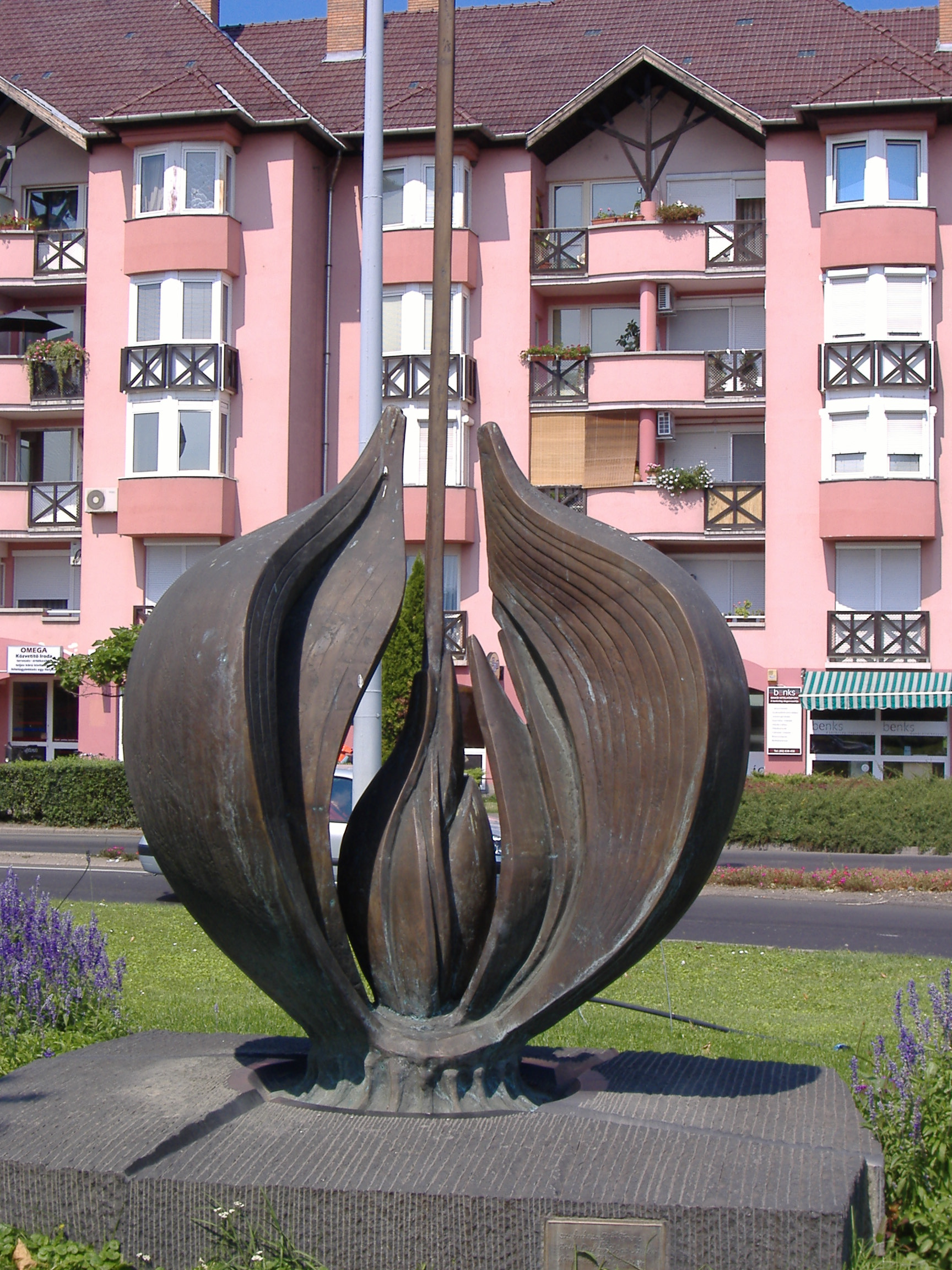 The onion sculpture of Makó, in Hungary. Sculptor: Ferenc Sütő (2000)